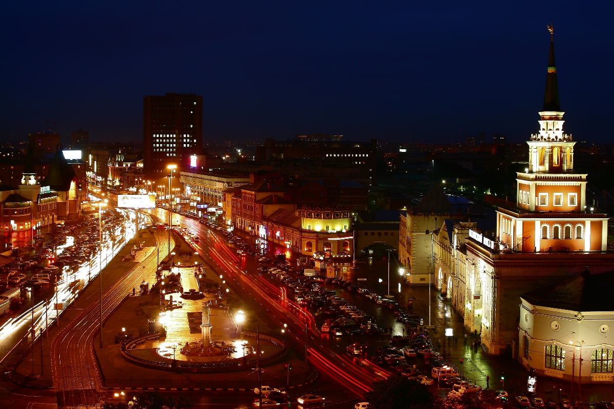 Komsomolskaya Square, Moscow, Russia